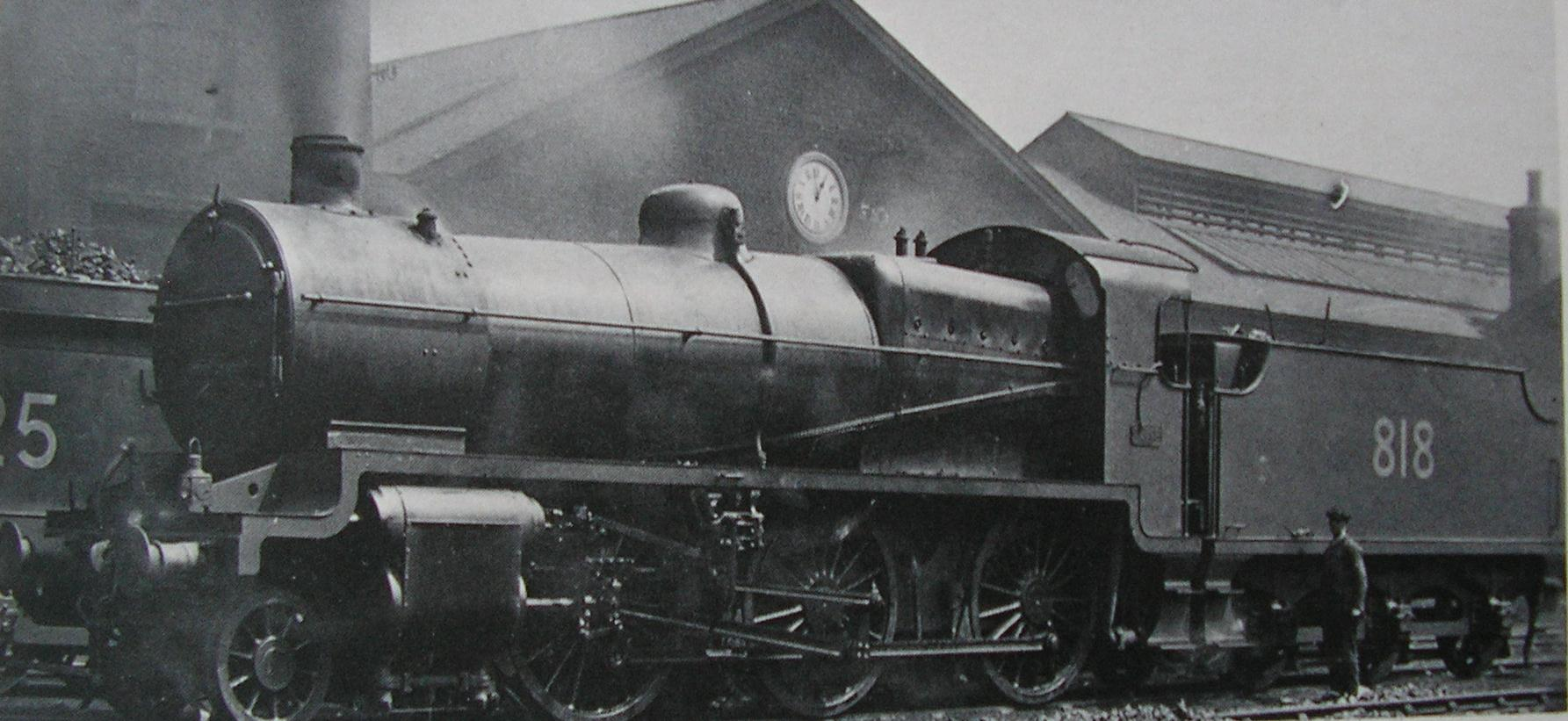 An image of SECR N class locomotive No. 818 with stovepipe chimney from the Locomotive Publishing Company collection, now under the custodianship of the British National Railway Museum, with which the copyright currently rests. The museum is a non-departmental public body sponsored by the Department for Culture. The image was taken in 1924. Photographer and location is unknown. (Source: Bradley, D. L.: The Locomotives of the South Eastern and Chatham Railway (Leamington Spa: RCTS, 1961), pp. 66-67.